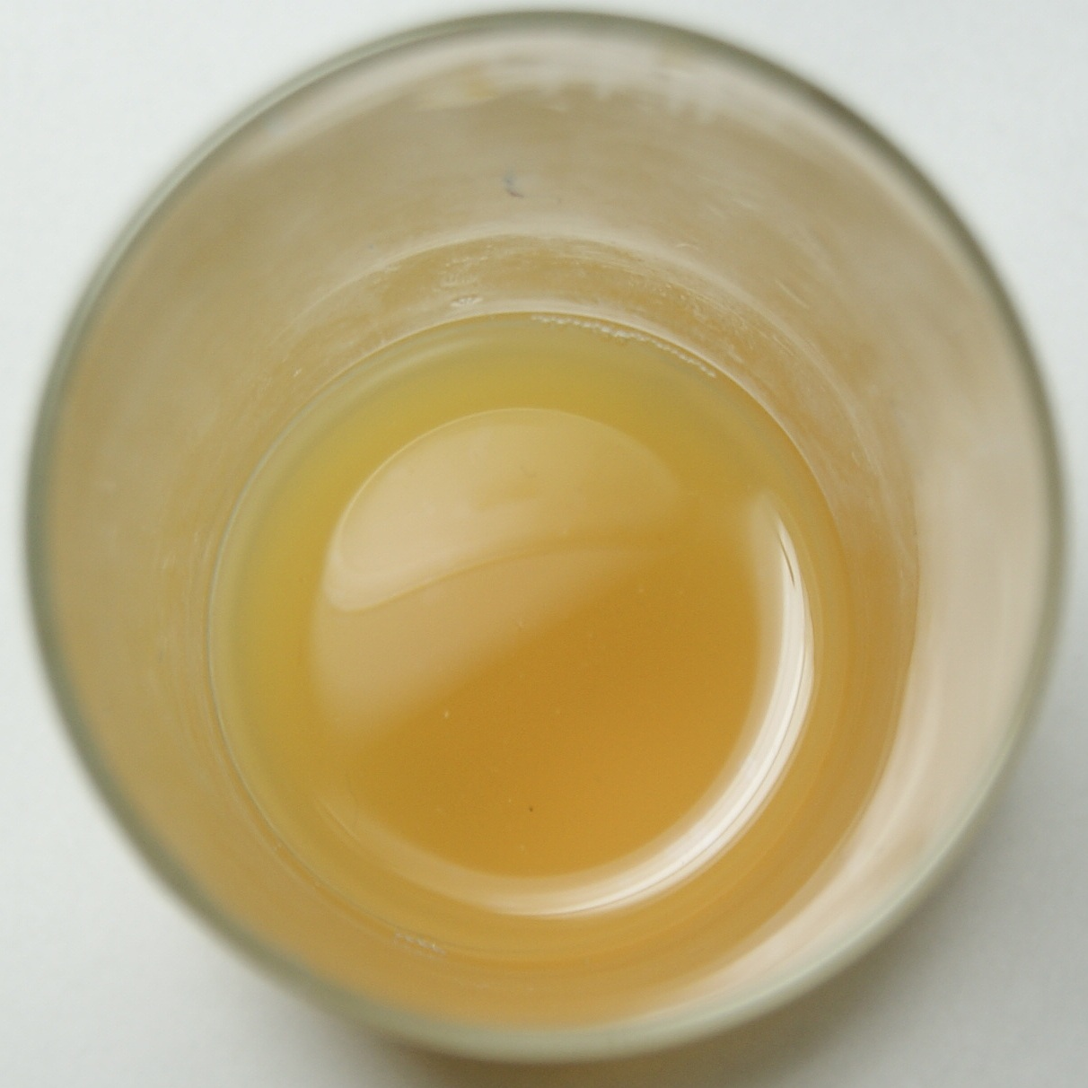 A small piece of holmium dissolved in 25% acetic acid. The reaction product contains the yellow holmium(III) ion, probably as holmium acetate.